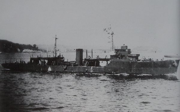 HIJMS Kamishima